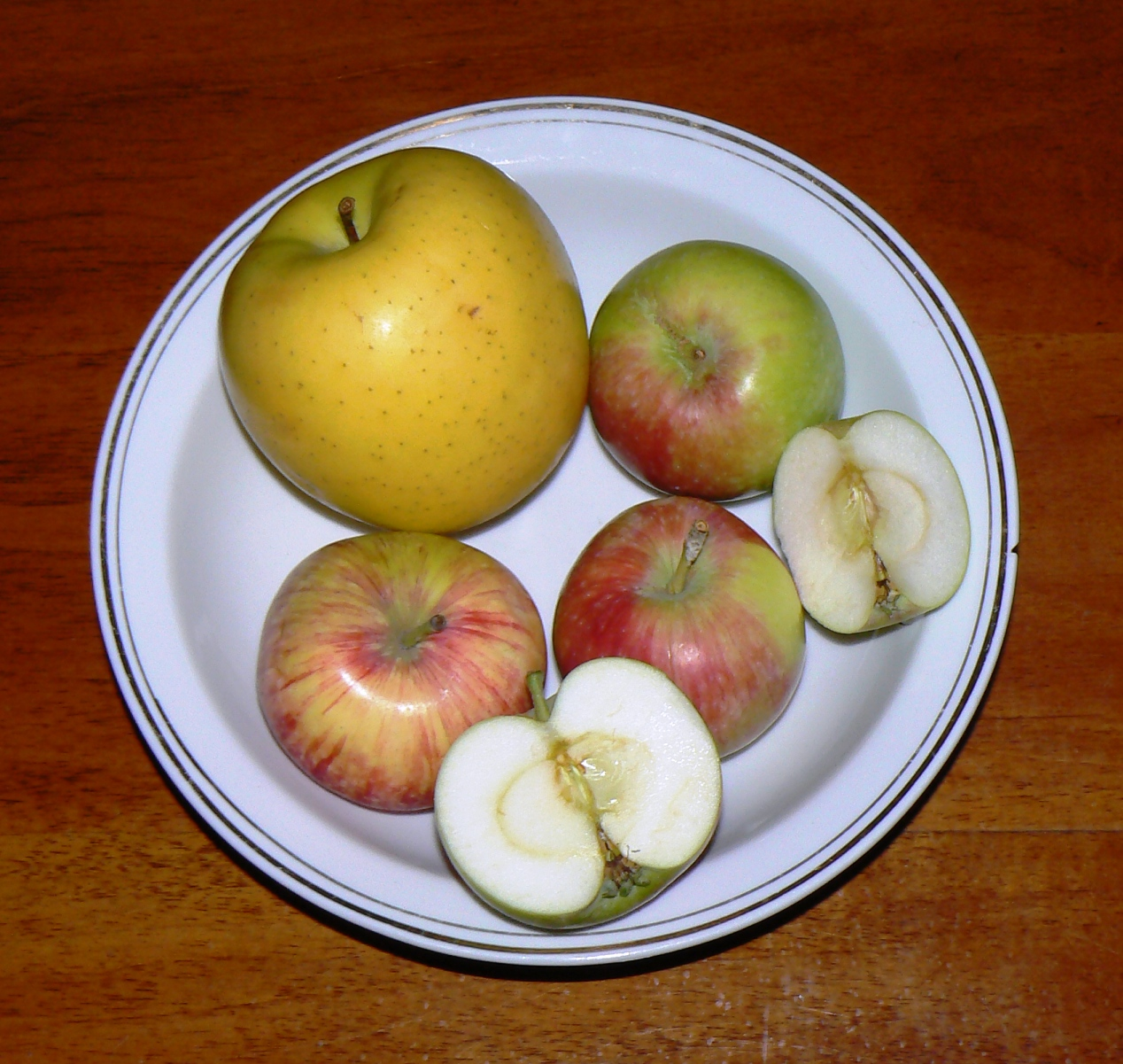 Four apples from the cultivar 'Petrovka', compared to an apple from the Golden delicious cultivar